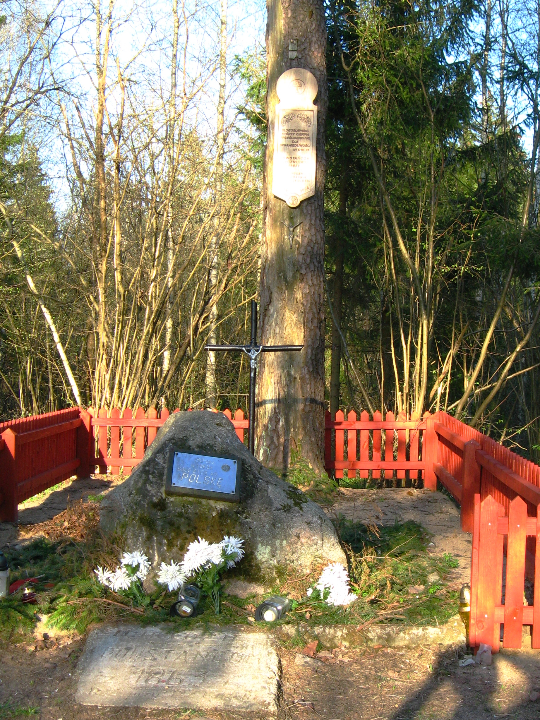 Shrine of insurgents of January Uprising at St. Anne Hill on „Hills of St. John” trail.